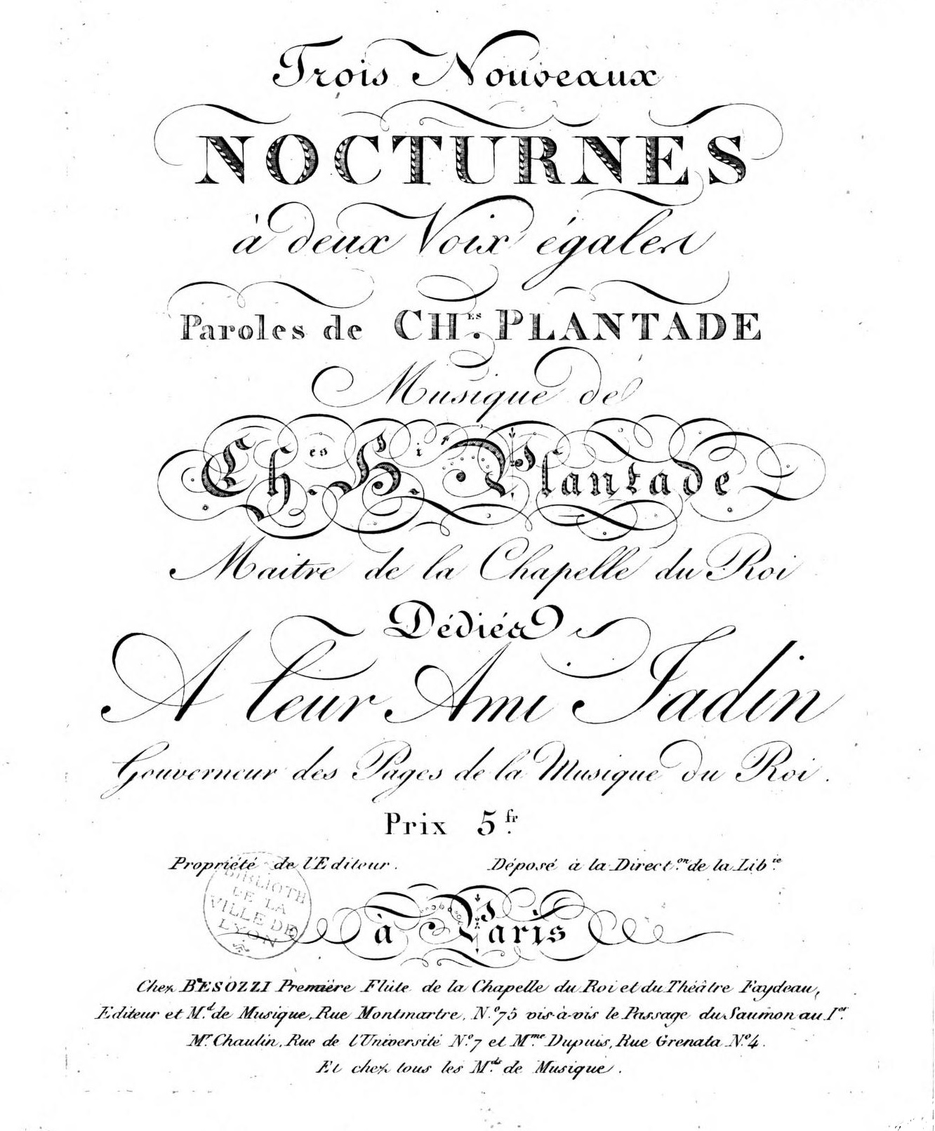 Title page of Trois Nouveaux Nocturnes à deux Voix égales composed by Charles-Henri Plantade and dedicated to Louis-Emmanuel Jadin